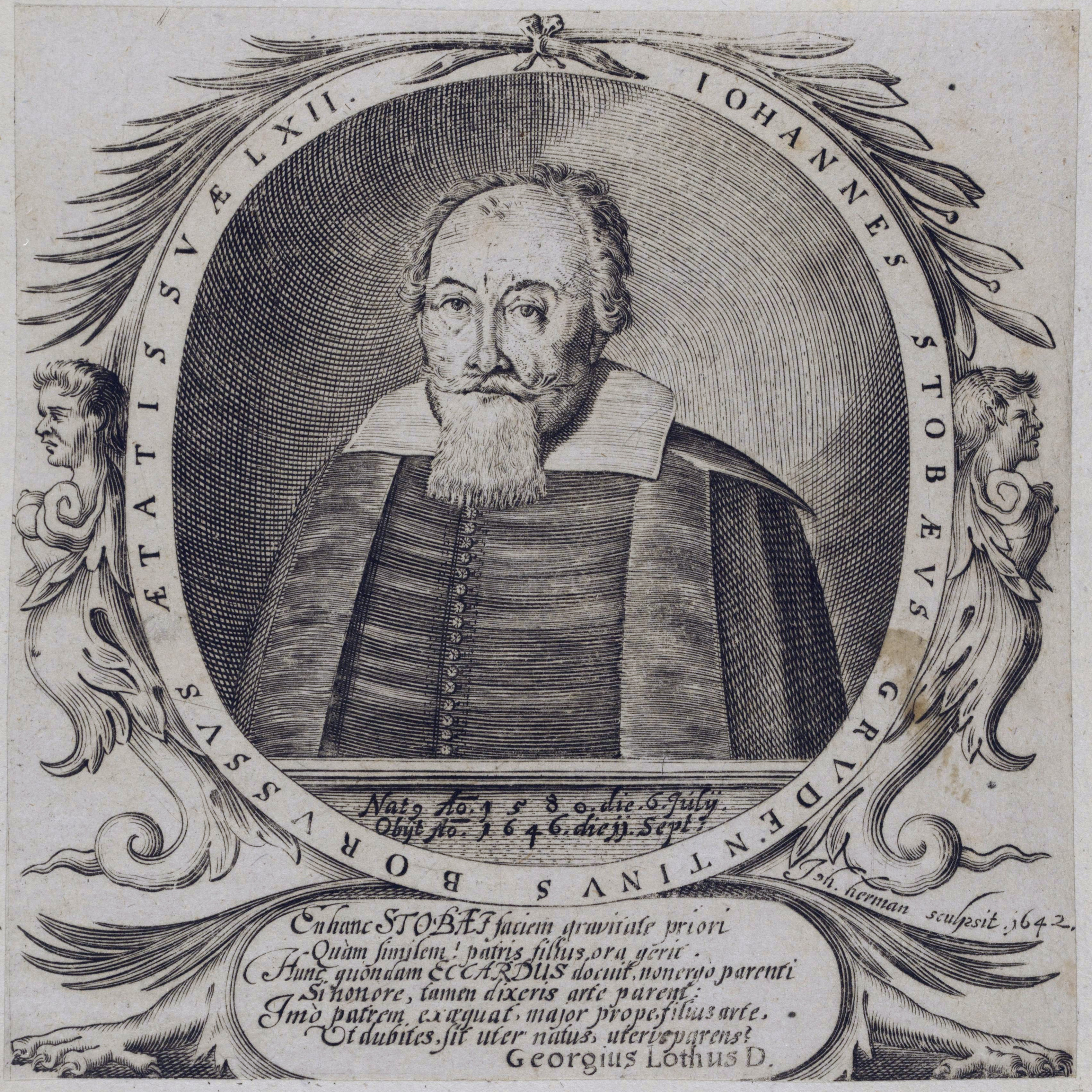 Depicted person: Johann Stobäus